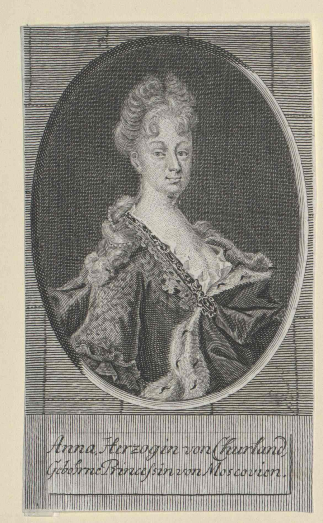 by her marriage in 1710 Duchess of Courland